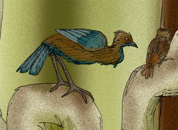 Comparison of the Latest Eocene/Earliest Oligocene birds, Strigogyps dubius (left), and Necrobyas minimus (right)